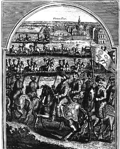 Persia-mohammad-reza-beg-visits-versailles